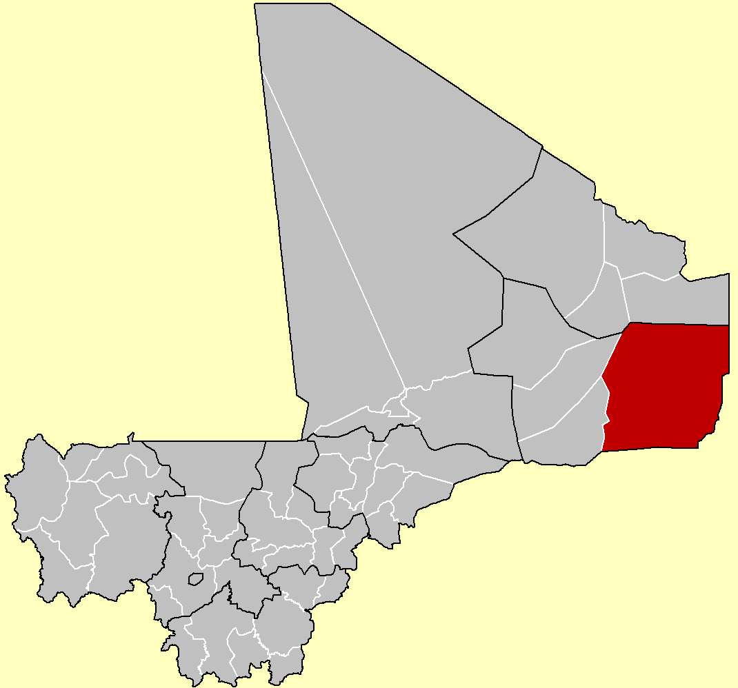 Map of Ménaka Cercle, Mali